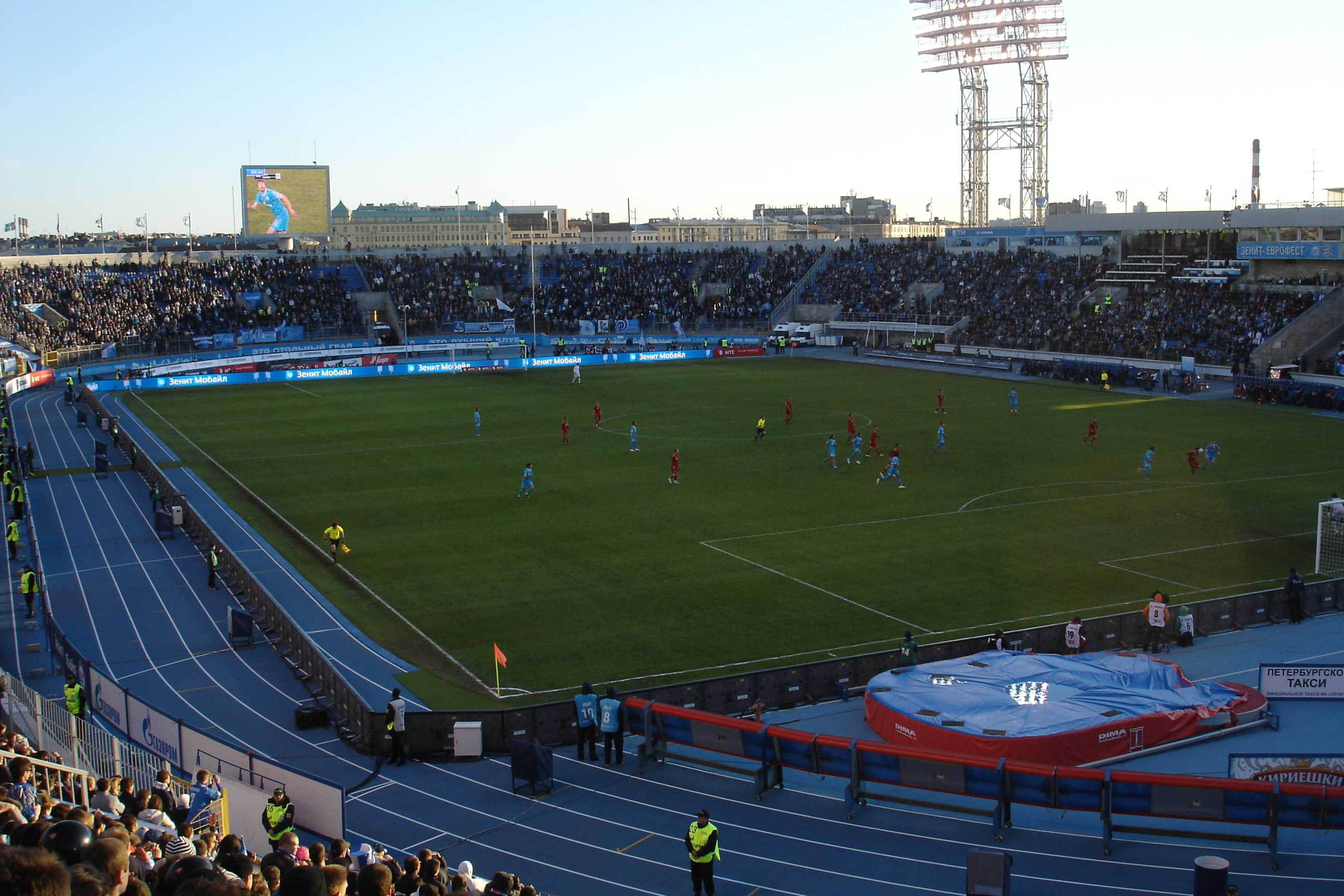 Petrovsky Stadium in Saint Petersburg, Russia. View at the sectors during the match Zenit SPb-Bayern Munchen